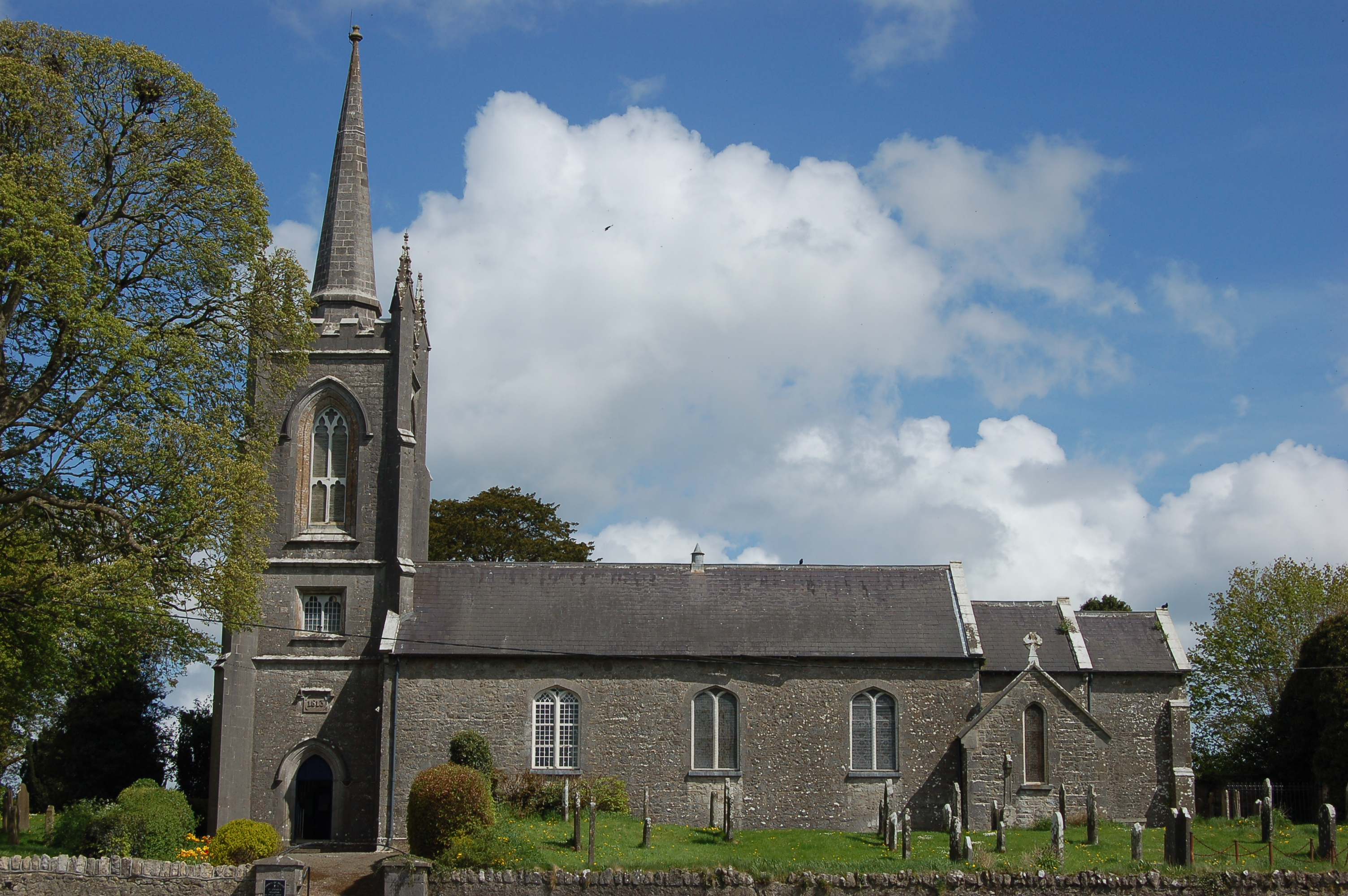 St Etchan's Church